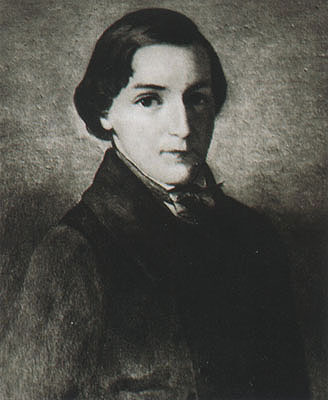 Becquer at 19